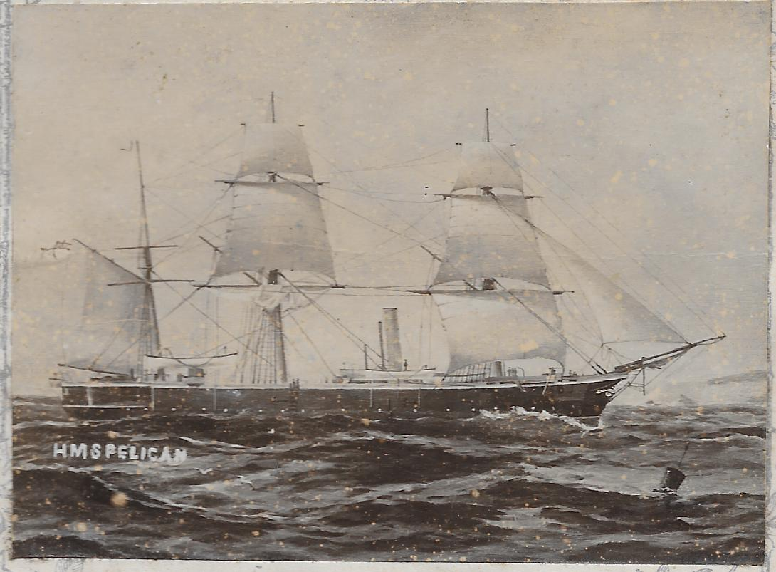 Photograph was used as a Christmas card sent from a W H Hunt (Reads from your loving husband W H Hunt with compliments of the season. I understand the gentleman was a sea captain who passed in 1960.